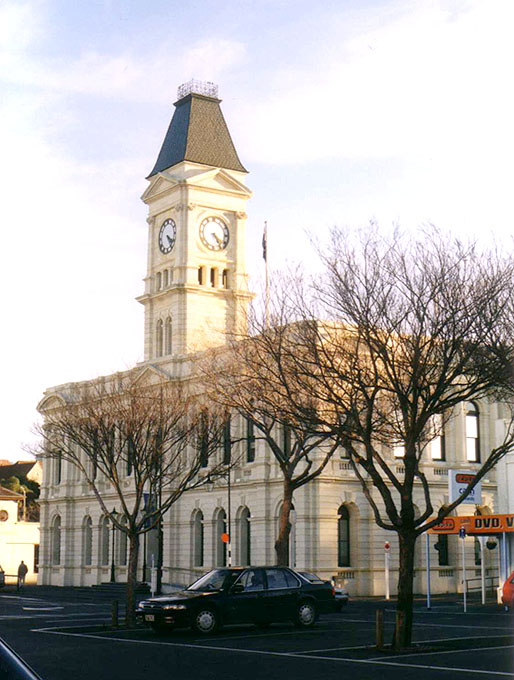 Former Oamaru Post Office, now Waitaki District Council building, Oamaru, New Zealand. New Zealand Historic Places Trust Register number: 2294.